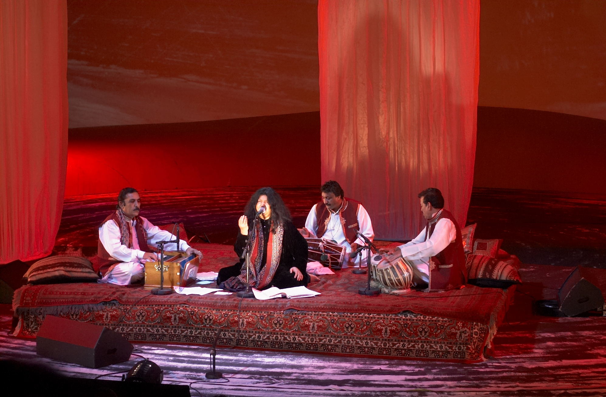 Pakistani singer Abida Parveen visited Oslo in September 2007